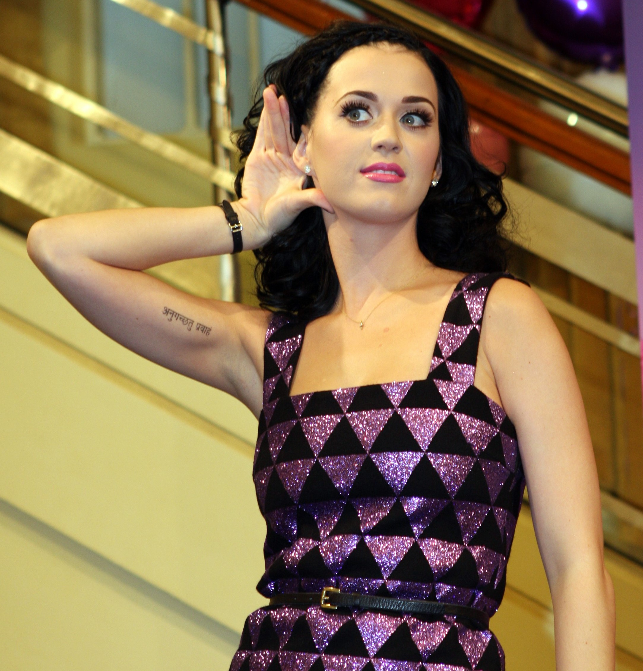 Katy Perry Fragrance Launch Purr 2011.